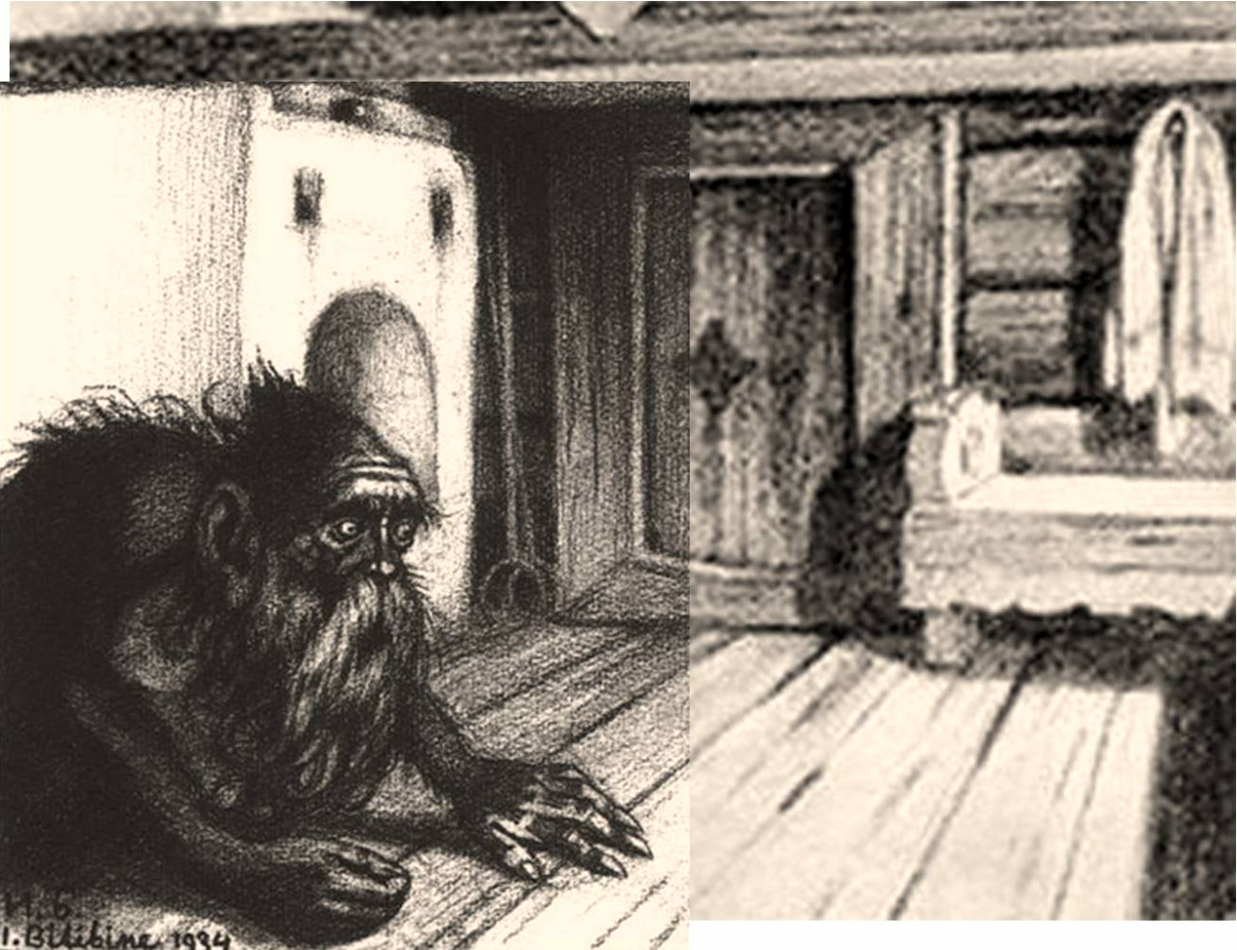 An illustration Domovoi, a spirit of the house.